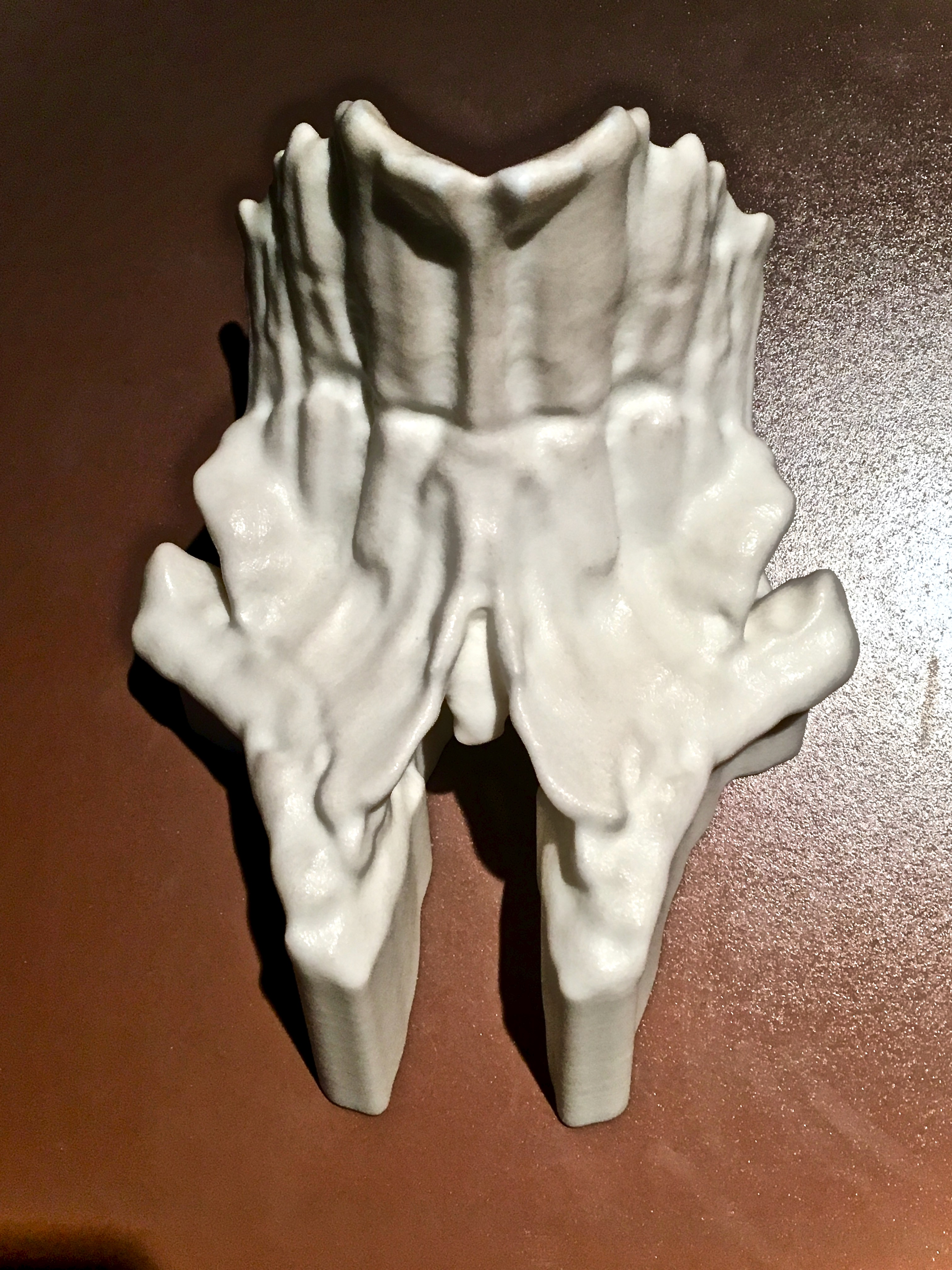 Restoration of the Cryolophosaurus head crest